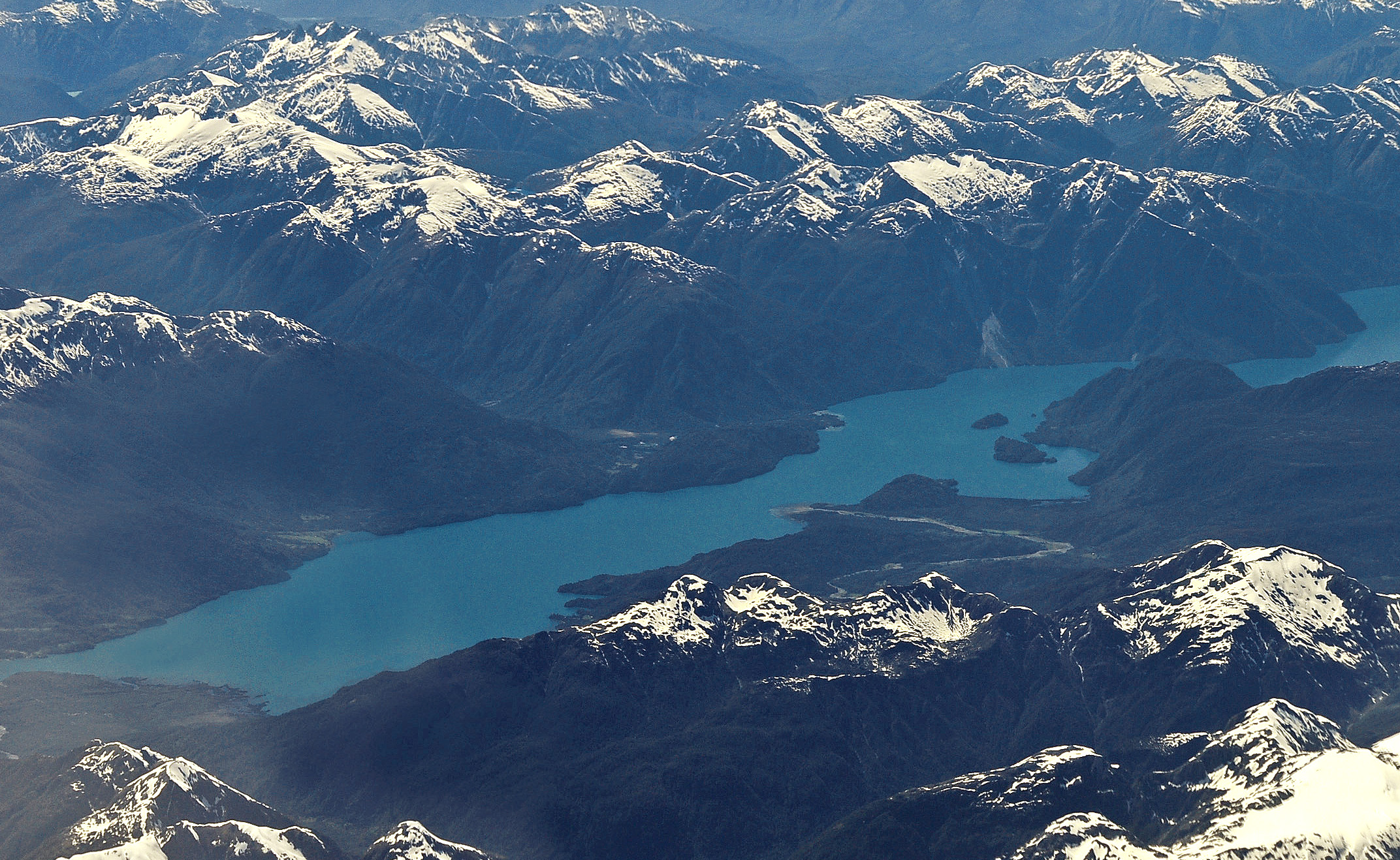 Aerial view of Yelcho Lake, Palena, Los Lagos, Chile